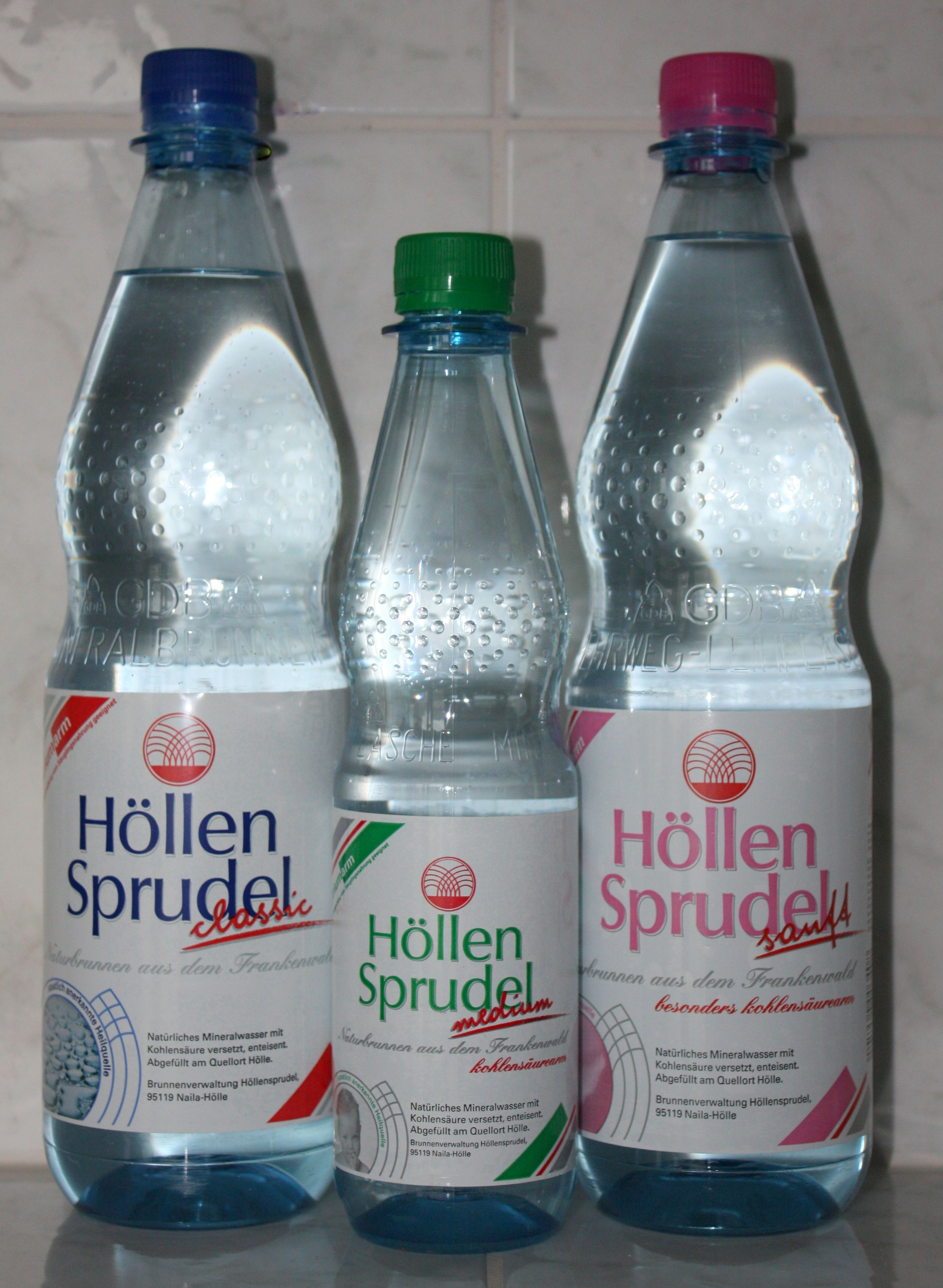 Three types of "Höllensprudel" mineral water: "classic" (blue), "medium" (green) and "sanft" (magenta)